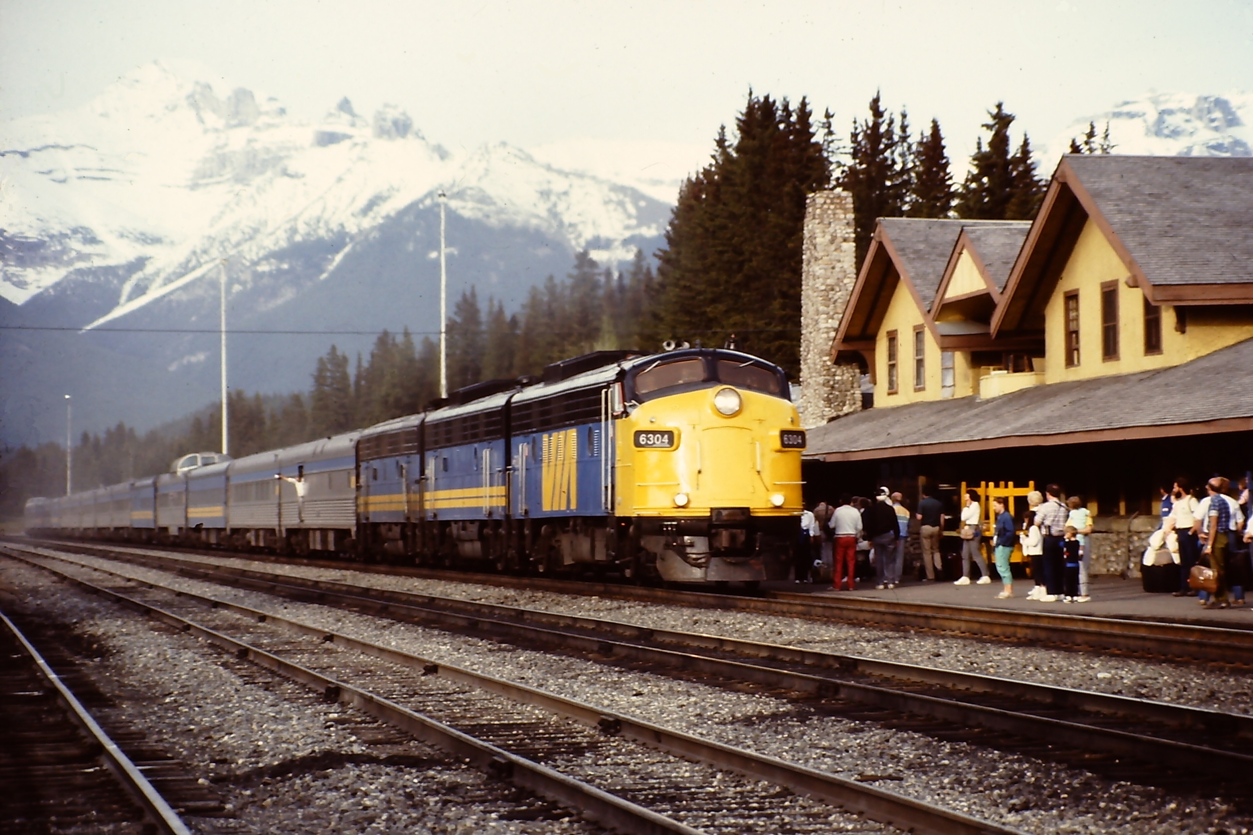 The Canadian in Banff (Alberta)